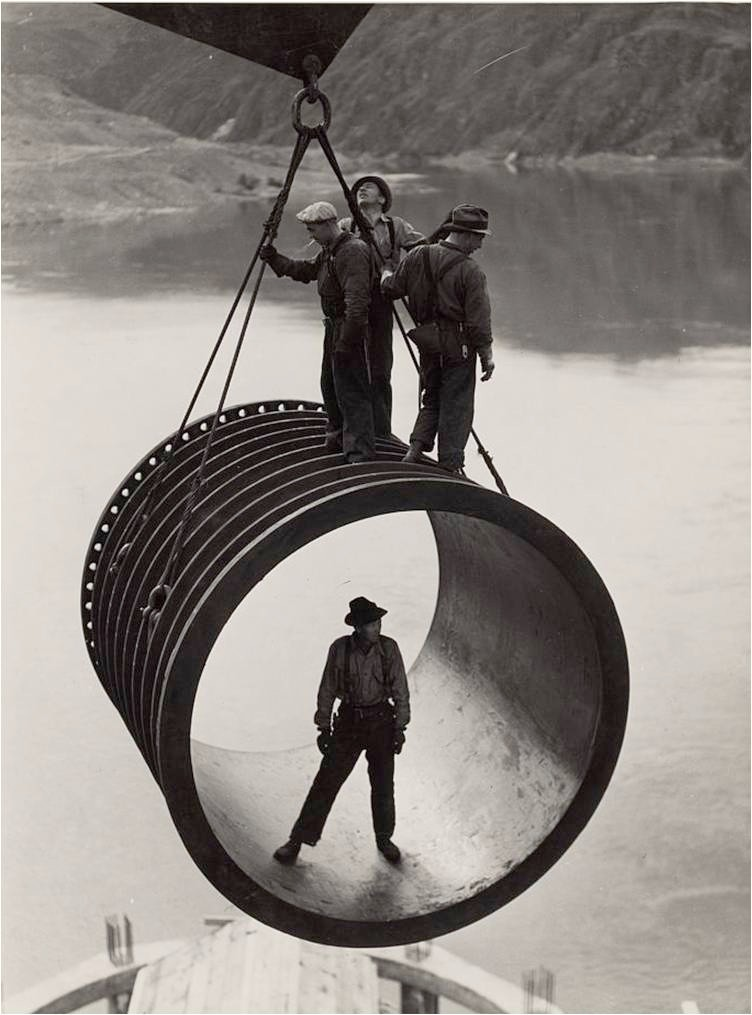 Four men, three standing on top and one standing inside, riding on large casing section of pipe suspended by cable as it is moved into position by a crane, reservoir in the background during construction of the Grand Coulee Dam, Washington